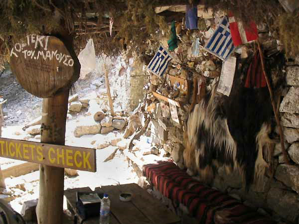 Imbros Gorge Ticket Check